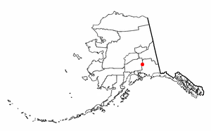 Adapted from Wikipedia's AK borough maps by Seth Ilys.